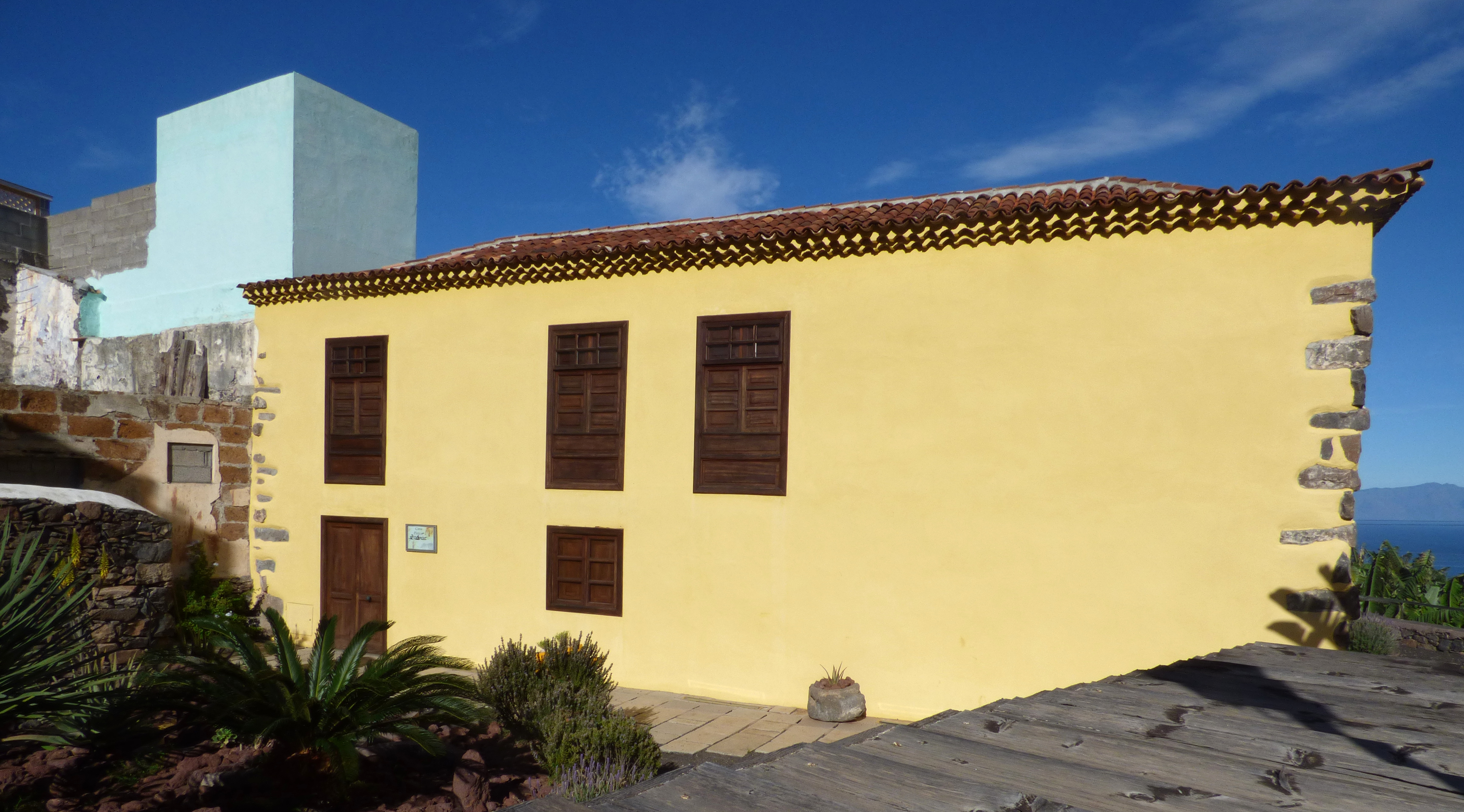 The house of José Aguiar, Calle de la Seda, Agulo. Levels adjusted. José Aguiar or José Aguiar García (born 1895 (Santa Clara, Cuba), died 1976 (Madrid)) was a painter and muralist from La Gomera